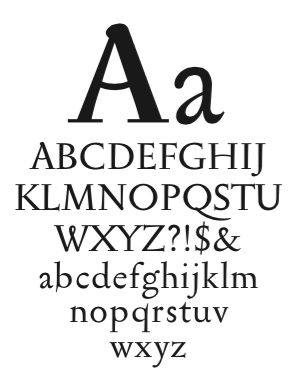 Serapion typeface by František Štorm (1997)